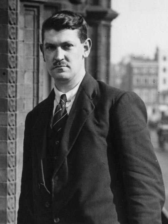 Irish revolutionary leader Michael Collins (1890-1922) as delegate to the Anglo-Irish Treaty negotiations in London in 1921.